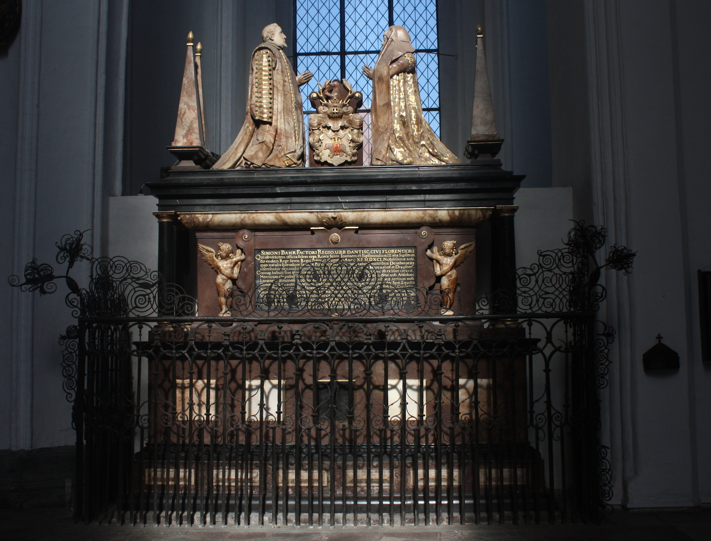 Gdańsk St. Mary's Church. Tomb of Bahr Family, XVII c.